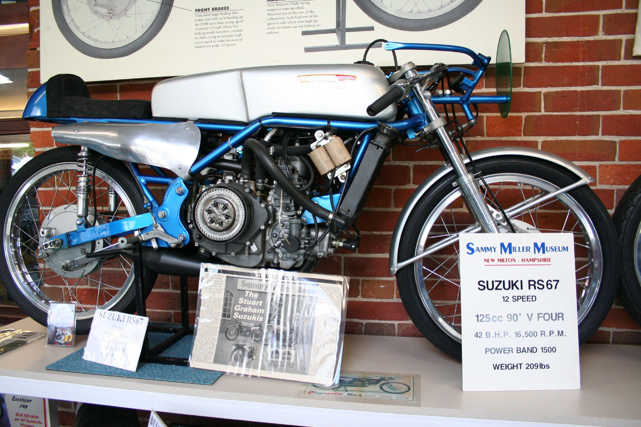 Suzuki RS67 @Sammy Miller Motorcycle Museum 12SPEED 125cc 90 V-FOUR 42 B.H.P./16,500R.P.M. POWER BAND 1500 WEIGHT 209lbs